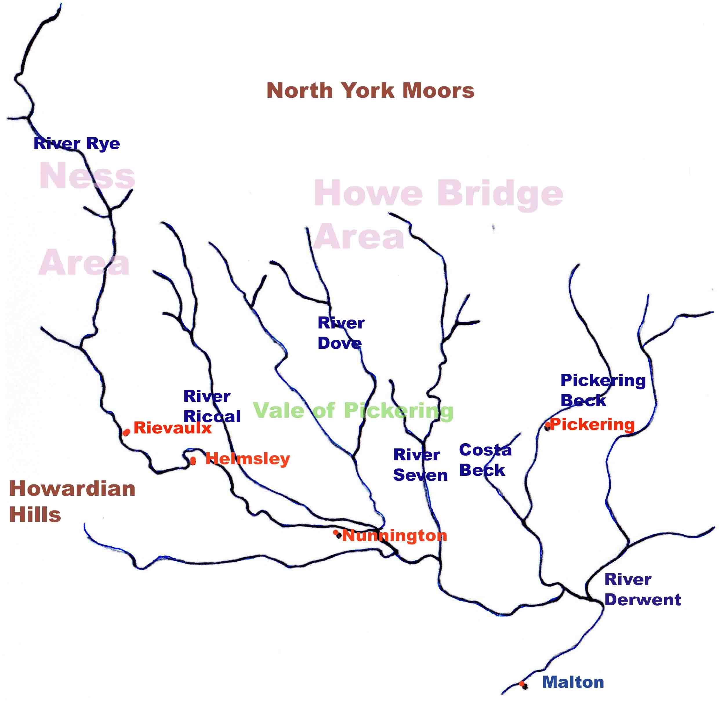 Type:Scan Source: Author:Harkey Lodger Photographer:Harkey Lodger Copyright holder:Harkey Lodger Location: The River Rye, Yorkshire, UK Co-ordinates:Uk54.10' N 0.44' W Time: Date: Sunday, 11 February 2007 Camera/scanner:Epson Stylus Photo RX520 Modifications:Nil Rationale: The River Rye Catchment Area Notes: Traced base map, scanned and added text and settlements using Adobe Photoshop Elements. License:The author grants the use of the image under the GDFL and/or Creative Commons licenses.